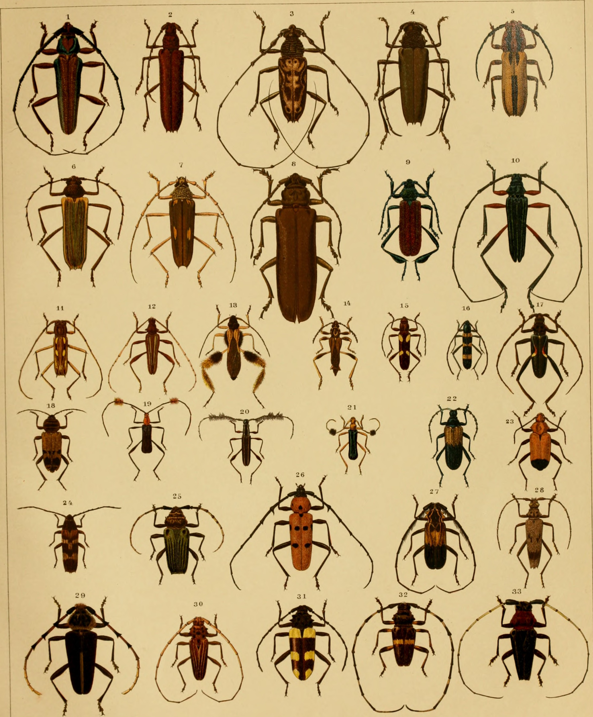 Title: Die exotischen Käfer in Wort und Bild Year: 1908 (1900s) Authors: Heyne, Alexander; Taschenberg, Otto, 1854-1922 Subjects: Beetles Publisher: Leipzig : G. Reusche Text Appearing Before Image: Cerambycidae IV. 36. Text Appearing After Image: 1 Xvstrocera festiva 2 Xestia spinipennis. 3. Pachydissus holosericeus. 4. Hammatochaerus batus. 5. Metopocoelus rojasi. 6. Chlorida costata. 7. Eburia didyma. 8. Criodion cinereum. 9. Phyllocnema latipes. 10 Calhchroma ser.ceum 11. Eburogutta sexmaculata. 12. Rhagiomorpha concolor. 13. Callisphyris macropus. 14. Acyphoderes auralenta. 15. Ste"Ogya sehgera 16 loy- zonus clavicornis. 17 Chloridolum leprosum. 18. Clylus decorus. 19. Compsocerus barbicorn.s. 20. Disaulax hirsuttcornis. 21. Cosmosoma equestre. 22. Desmocerns palliatus. 23. Eurycephalus lundi. 24 Tragocerus b.dentatus 25• Tr^hyderes^mon. 26 Eurybates formosus. 27. Lophocerus hirticornis. 28. Distenia undata. 29. Dorcacerus barbatus. 30. Trachyderes stnatus. 31. Aegoidus debauvei. 32. Trachyderes succinctus. 33. Ancylosternus scutellans. Verlag:: G. Reusche, Leipzig-. Lithographie nach der Natur: Max Brugeemann, Leipzig-. Druck: F. A. Blockhaus, Leipzig-.